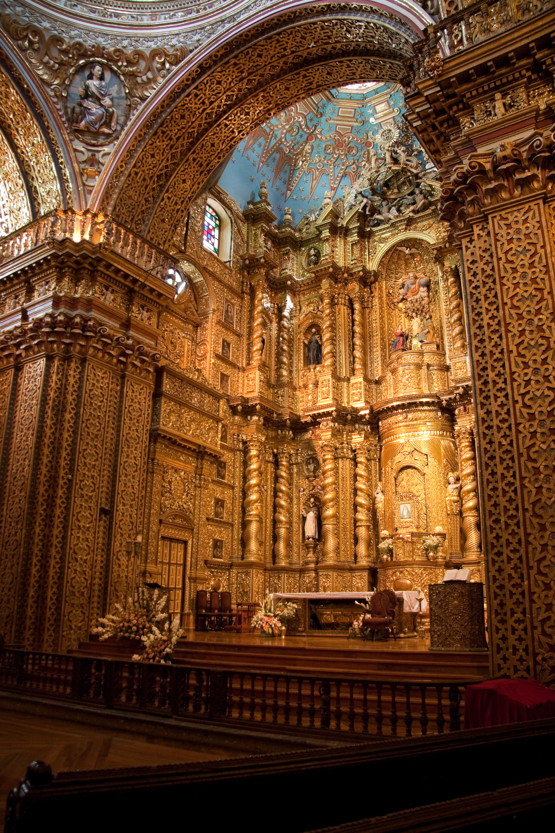 Church of the Society of Jesus (La Iglesia de la Compañía de Jesús), Quito, Ecuador